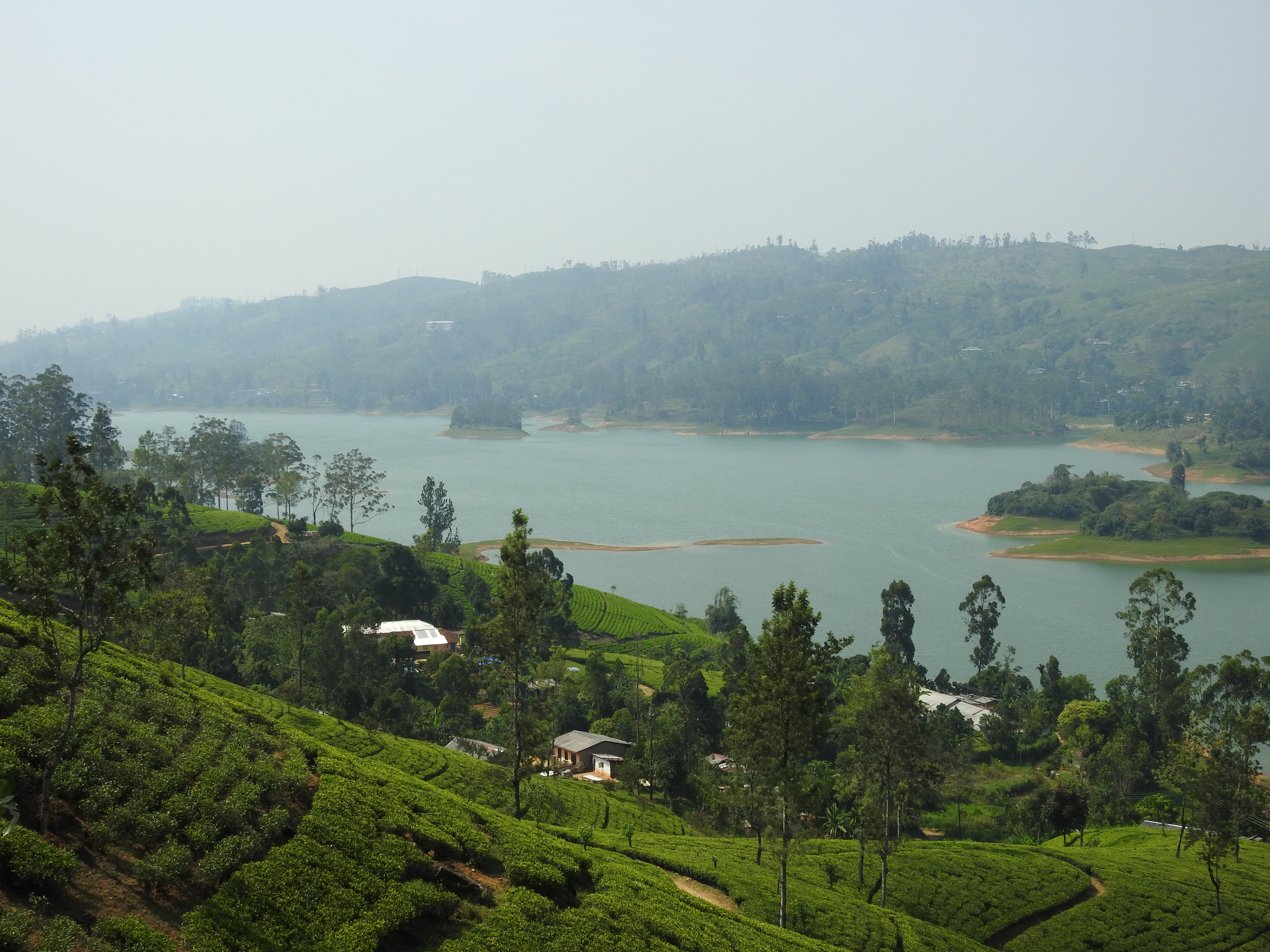 This photo was taken as part of a photo project by Wikimedia Community User Group Sri Lanka, covering current/future hydroelectric dams (and its surroundings) in the Central and Sabaragamuwa provinces of Sri Lanka. User:Rehman handled the photography, while User:Azeez and User:PasinduBR handled the logistics/planning of routes. Description of photo: Castlereigh Reservoir. Further information on the subject(s) of the photograph may be found in the category/ies of this file.